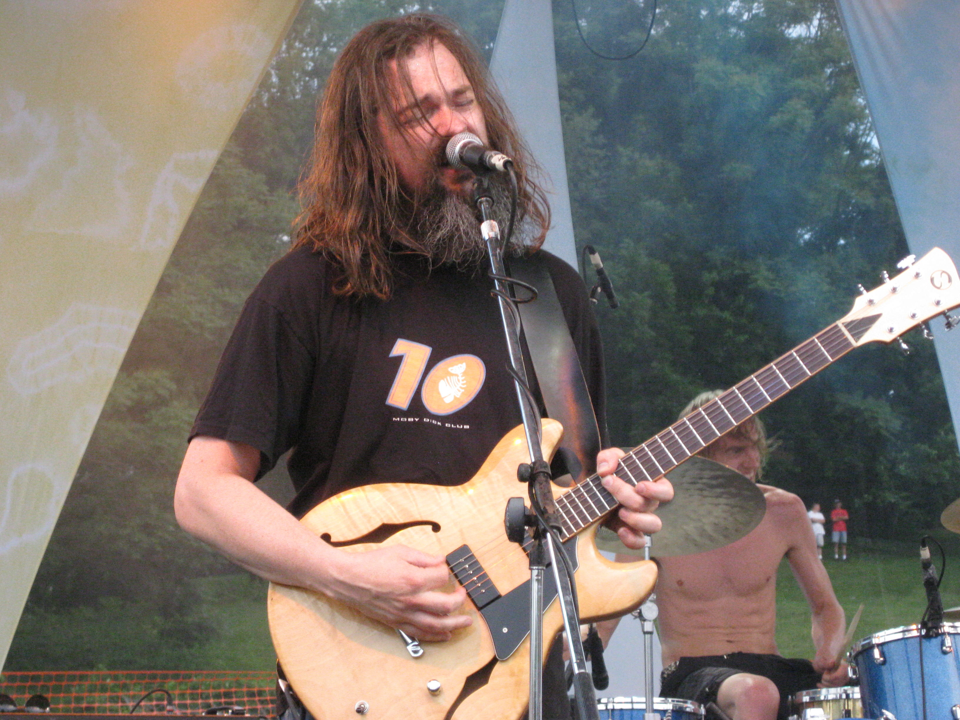 Motorpsycho, Terrastock; Hans Magnus "Snah" Ryan.